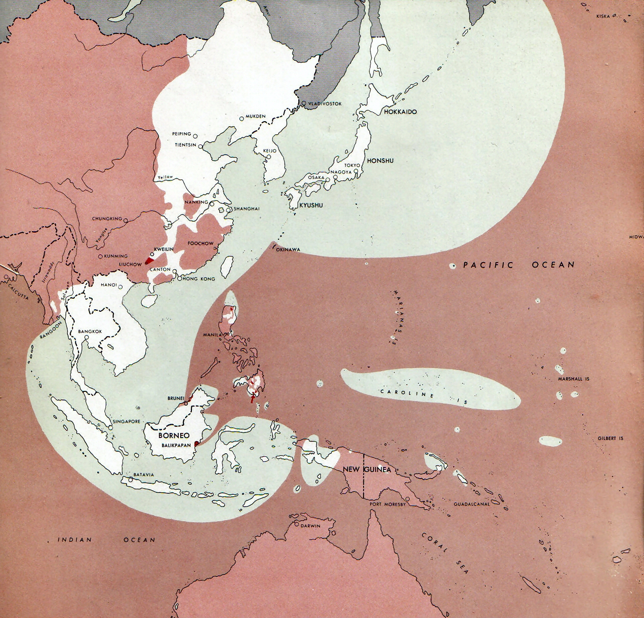 Map of the front against Japan as of 15 July 1945: This map is taken from the source "Atlas of the World Battle Fronts in Semimonthly Phases to August 15th 1945: Supplement to The Biennial report of The Chief of Staff of the United States Army July 1, 1943 to June 30 1945 To the Secretary of War". (See Cover, Forward and Map details)